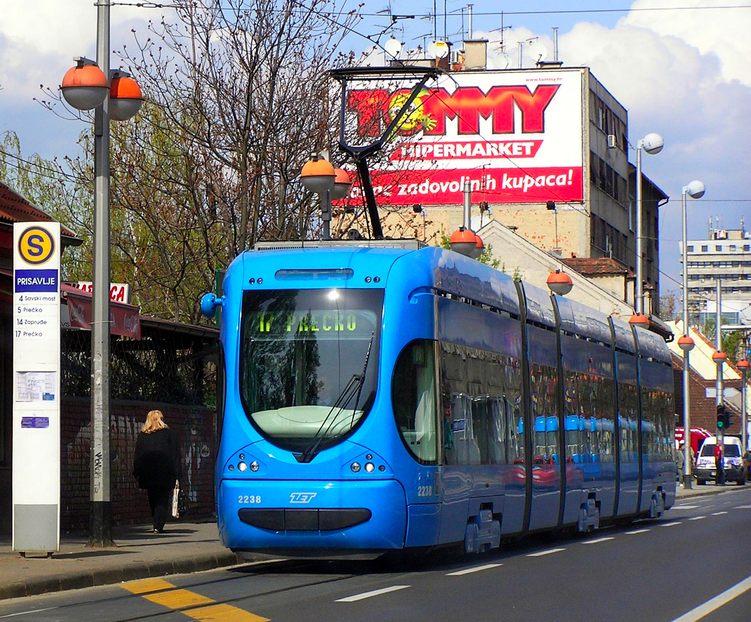 Crotram TMK 2200 tram (#2238) in Zagreb, Croatia. Built 2006.